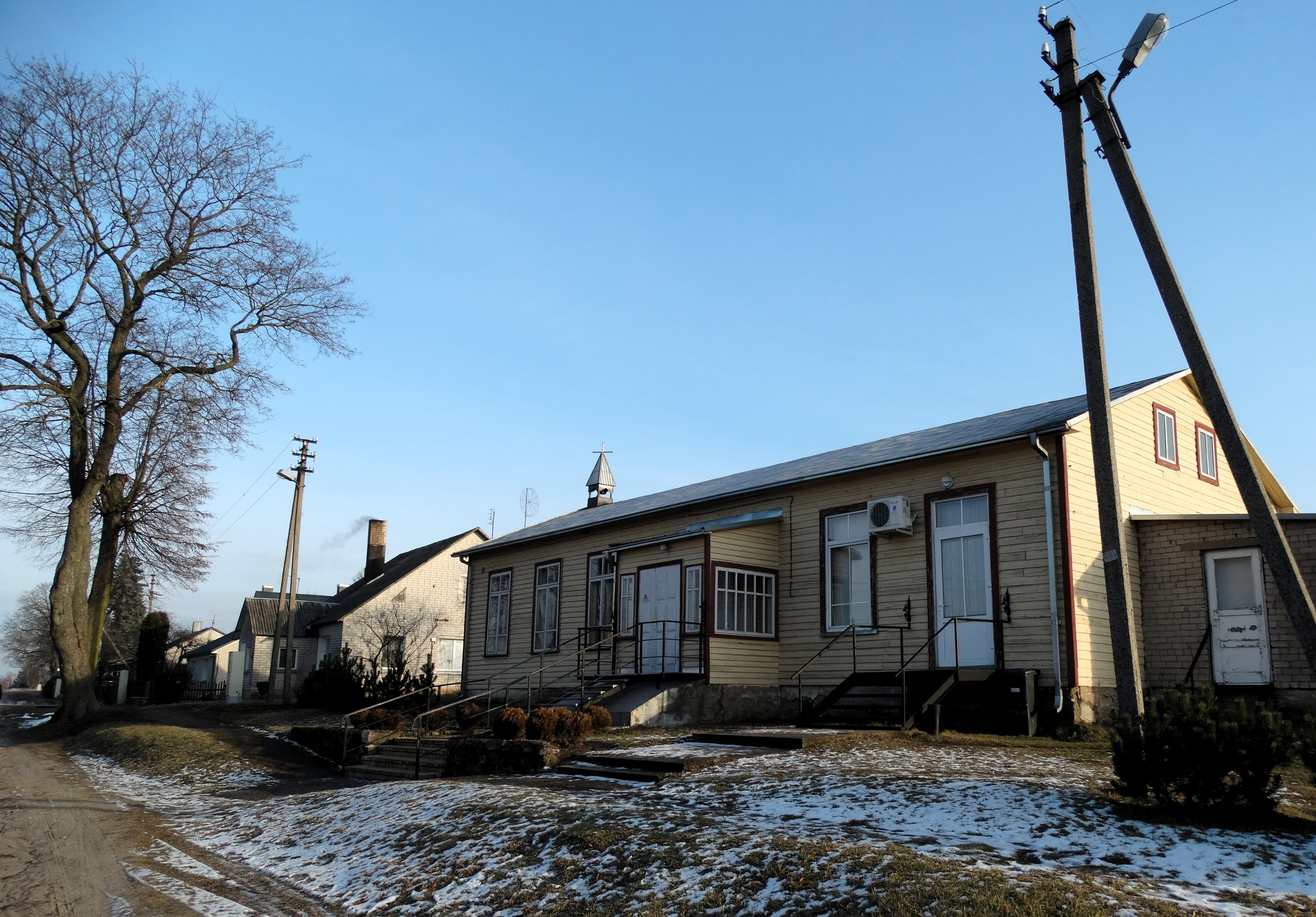 Chapel, Venciūnai, Alytus district, Lithuania